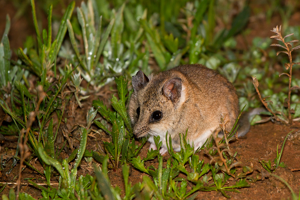 North of Deniliquin Map location not precise.